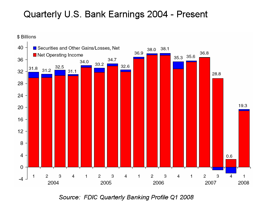 U.S. FDIC banking profits - Q1 2008 This data is from a quarterly report from the U.S. Federal Depository Insurance Corporation (FDIC), which discusses bank financial health and profitability, among other roles. Source: FDIC Quarterly Banking Profile at